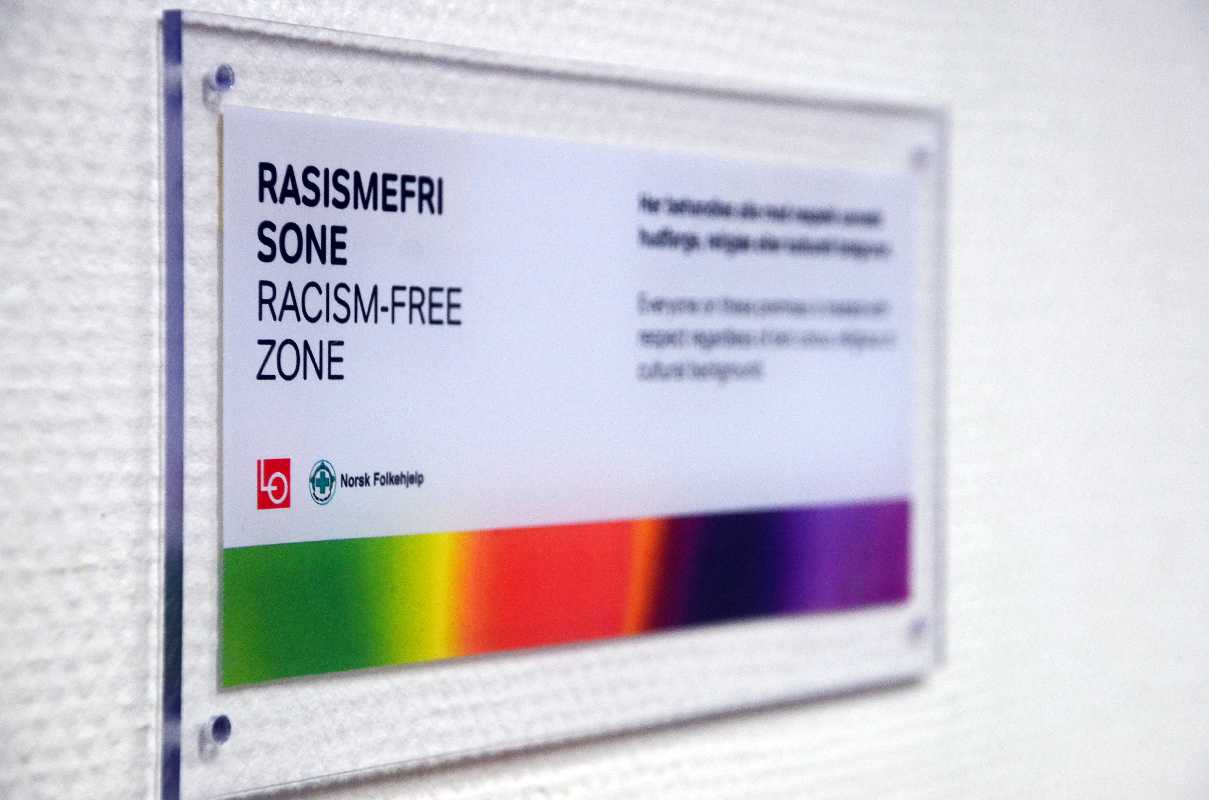 A Norwegian sign declaring the space an anti-racist zone. The signs were part of a campaign initiated by the Norwegian Confederation of Trade Unions and the Norwegian People's Aid.